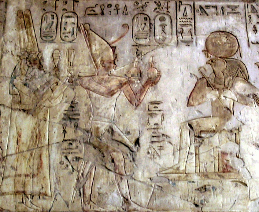 Psammetichus I and his daughter Nitocris I adoring Ra-Harakhte - Pabasa's tomb in the Theban Necropolis - 26th dynasty of Egypt